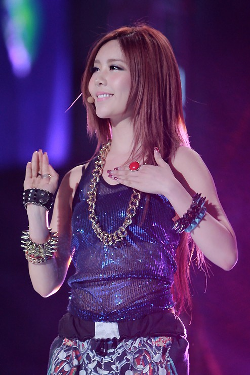 Qri at K Collection in Seoul, March 2012